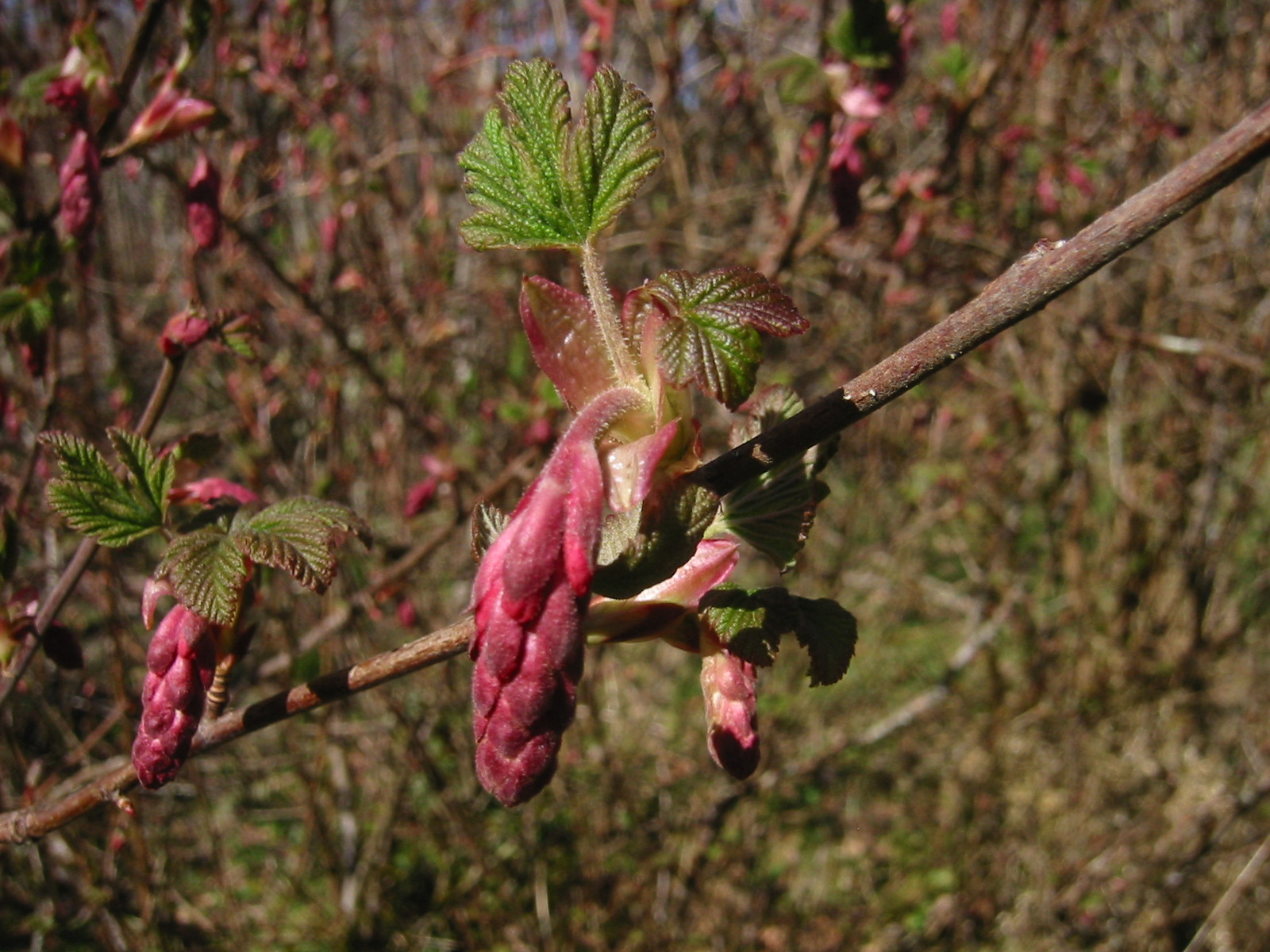 Flowering Currant flower buds and foliage.